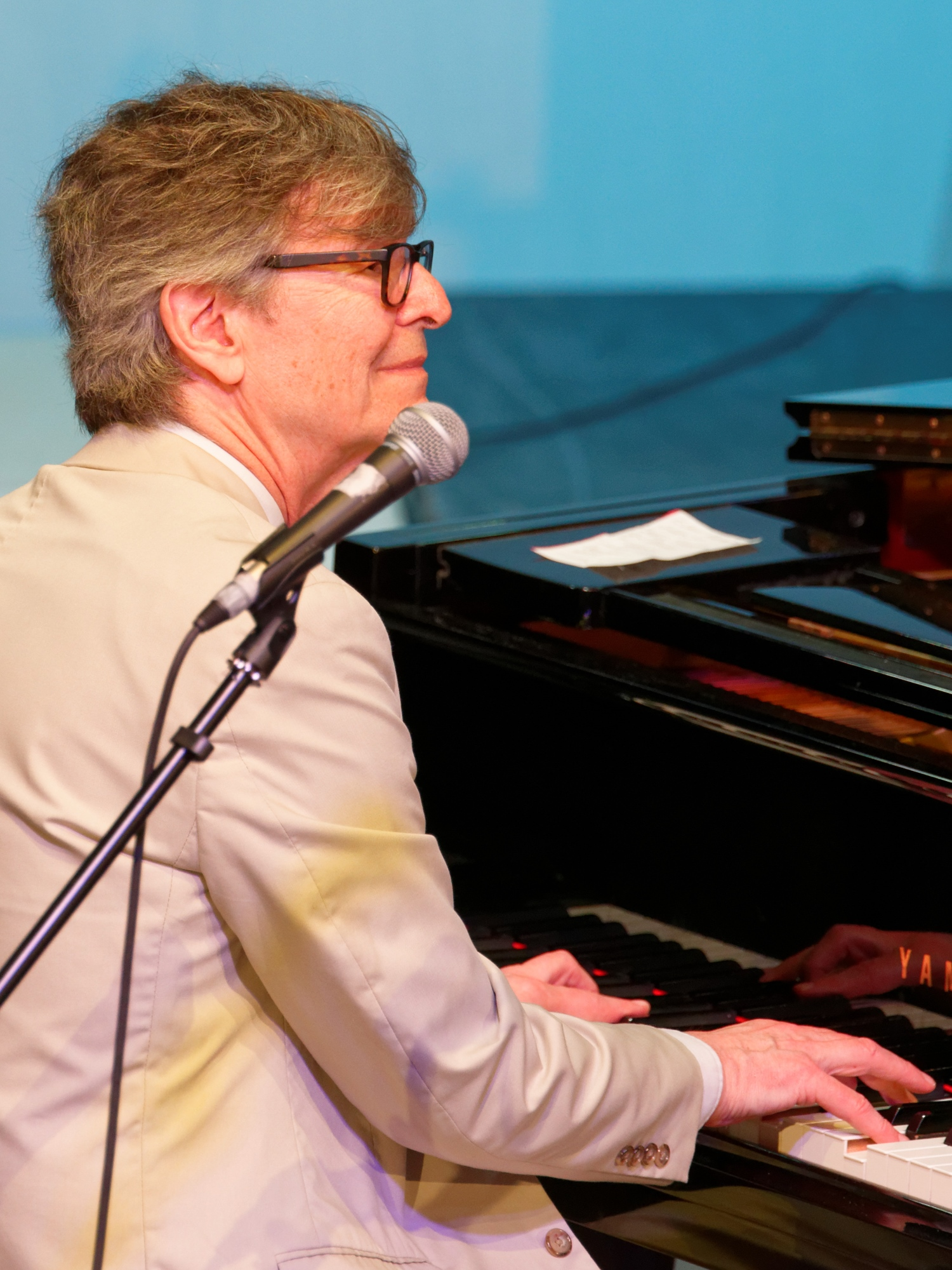 Darius Brubeck at the Swansea International Jazz Festival, 18 June 2016